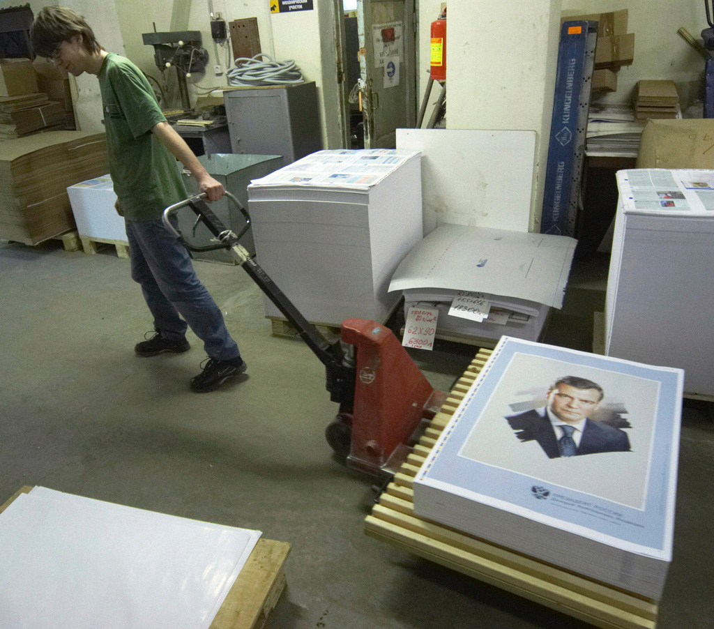 “Printing portraits of Russia's president-elect Dmitry Medvedev”. Printing portraits of Russia's president-elect Dmitry Medvedev at the Lyubavich printing firm in St. Petersburg.